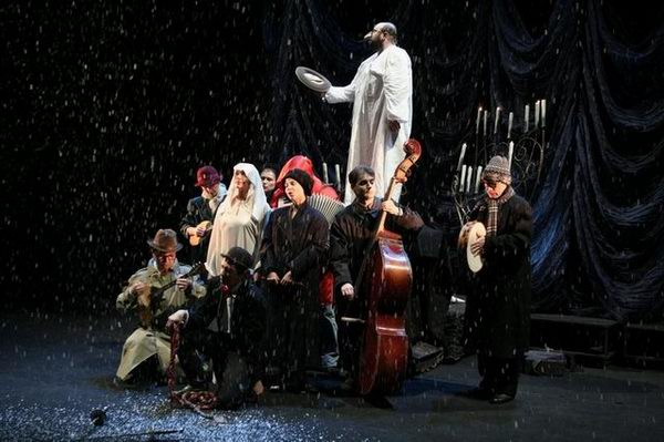 performance «The Sunny Faced» («The cabal of hypocrites»), theatre of drama and comedy «FEST», Mytishchi